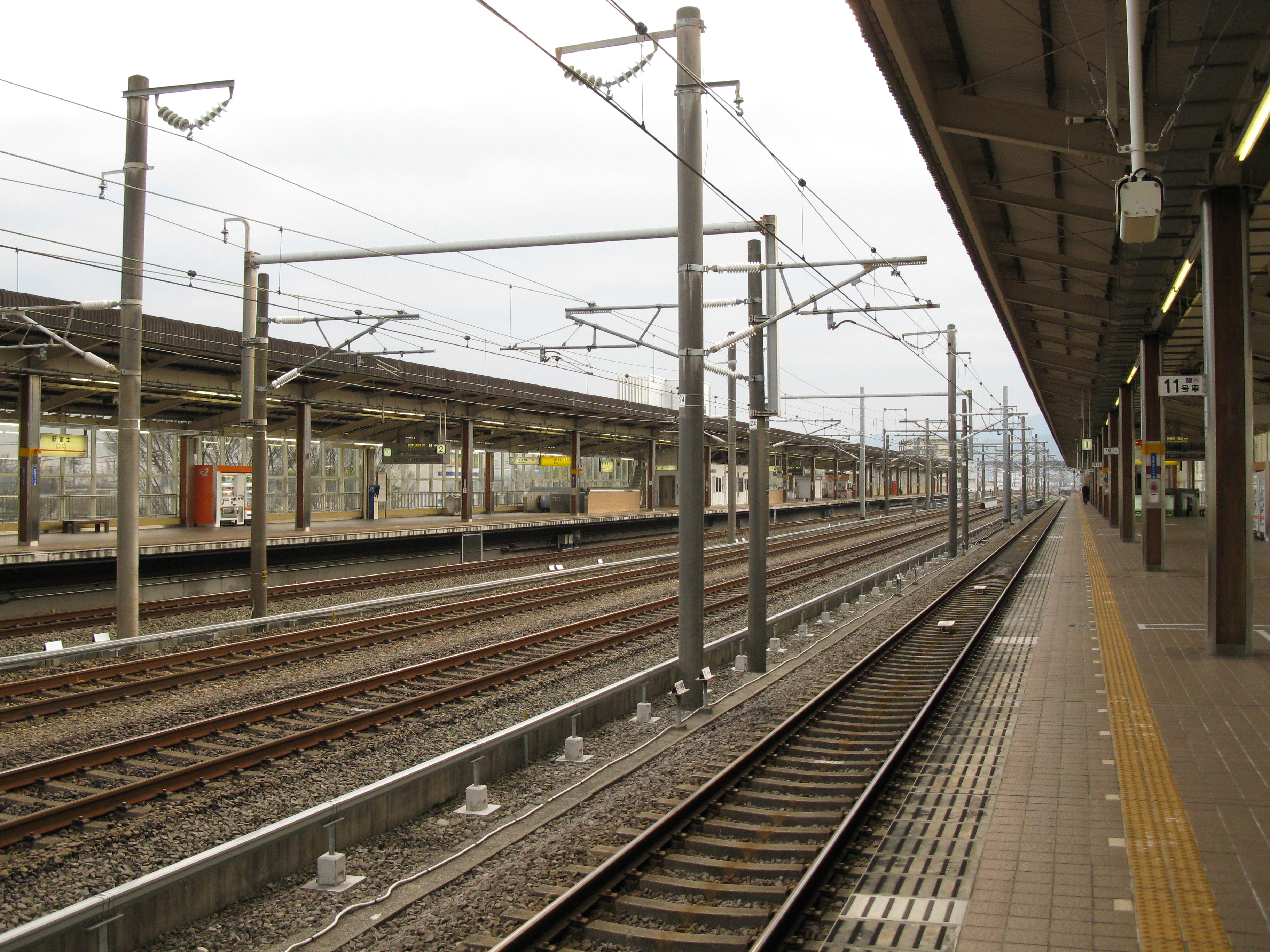 The platforms at Shin-Fuji Station on the Central Japan Railway(JR Central) Tōkaidō Shinkansen in Fuji city, Shizuoka prefecture, Japan